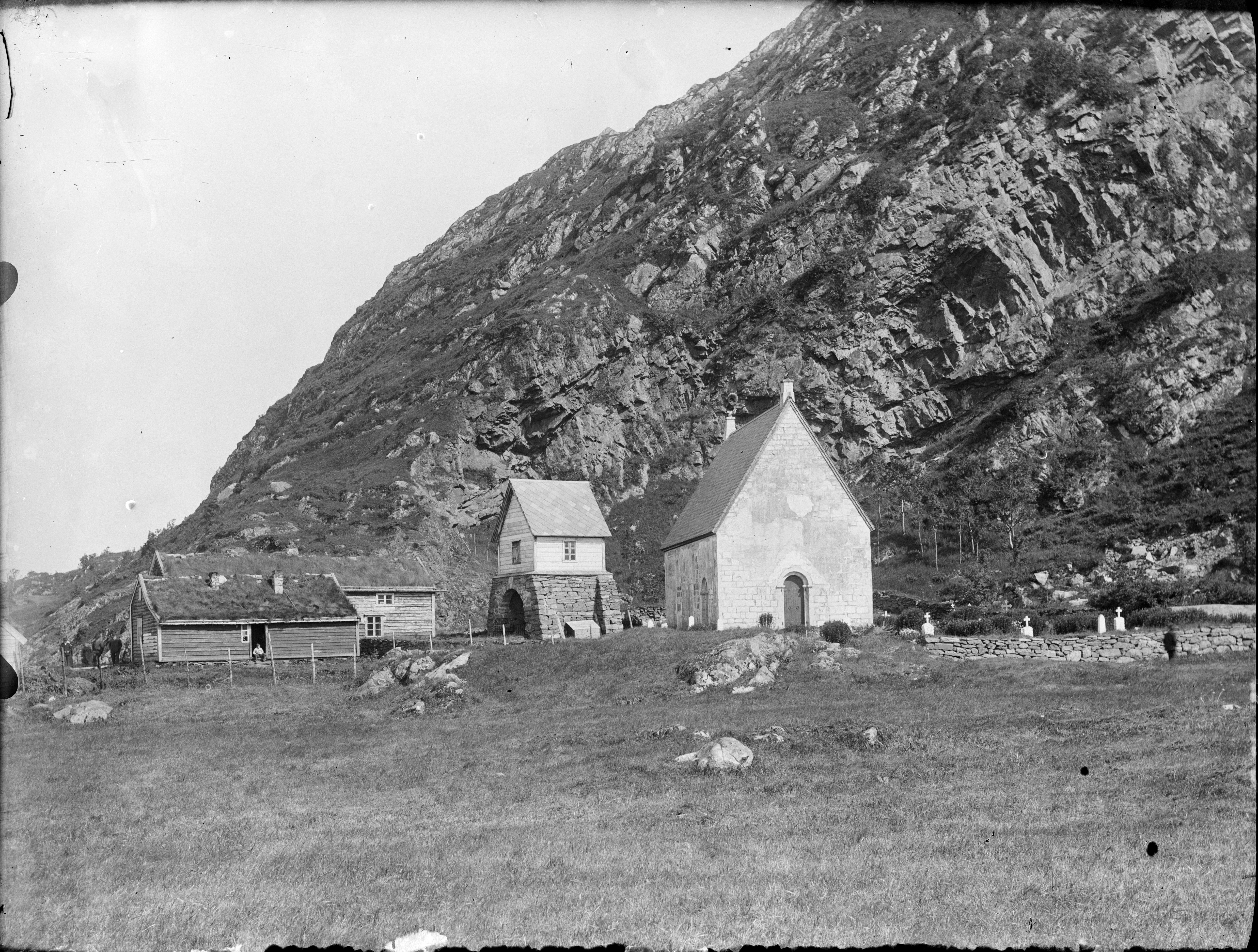 SFFf-1989091.162834 Kinn church was built in the years 1150-1200. It is associated with the legend of Saint Sunniva . Photographer: Paul Stang.